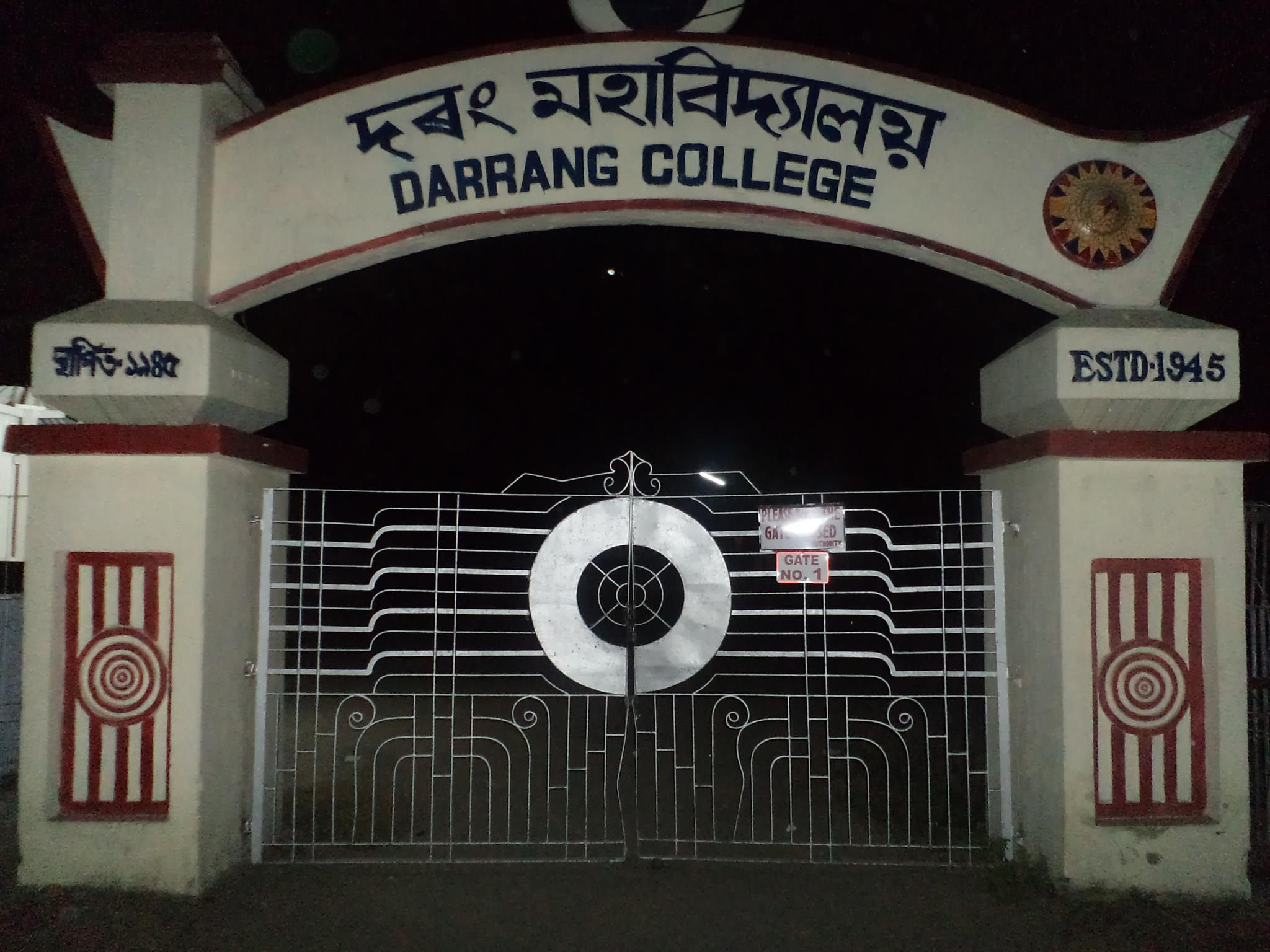 Darrang College Gate